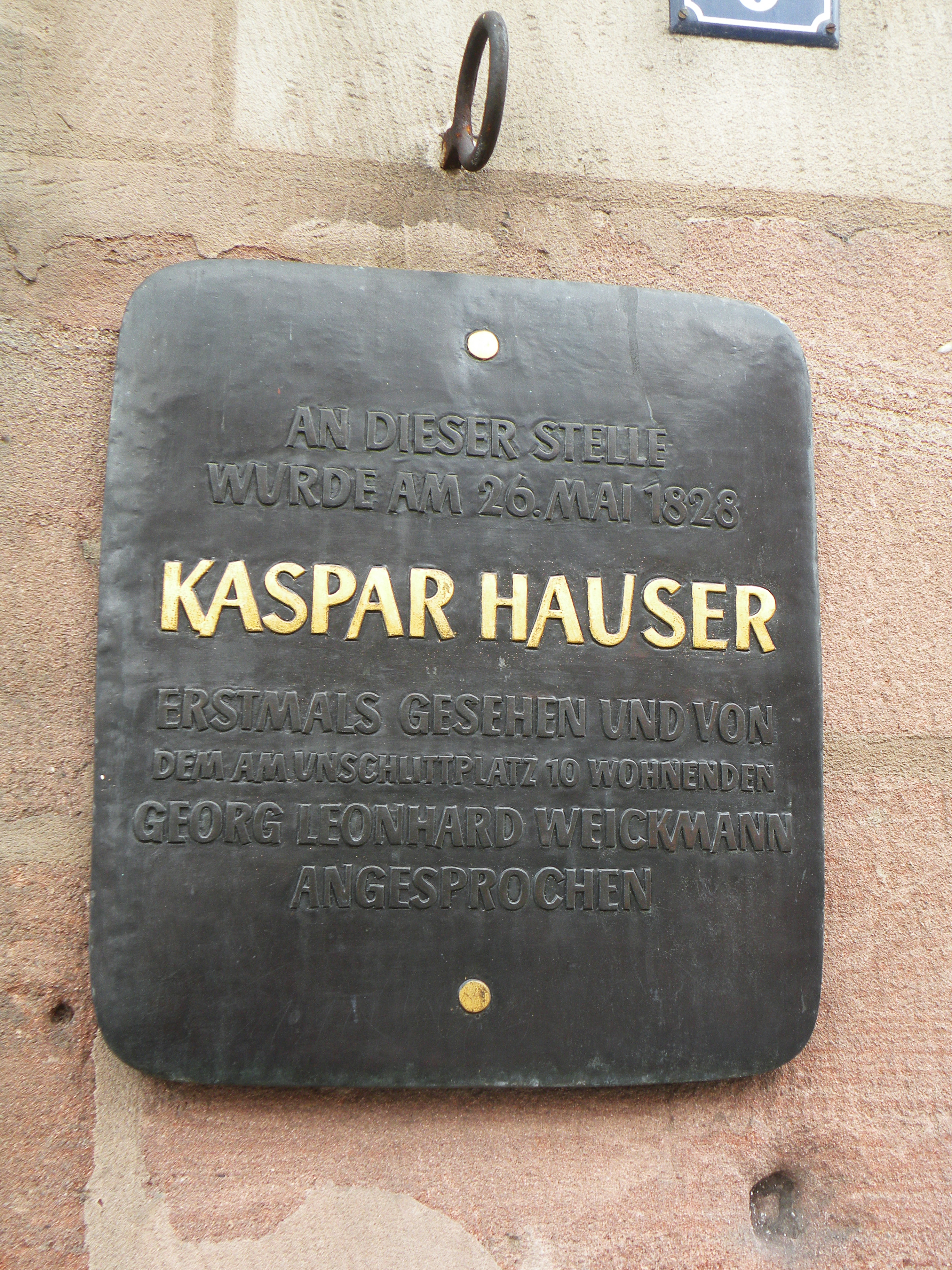 Kaspar Hauser house.